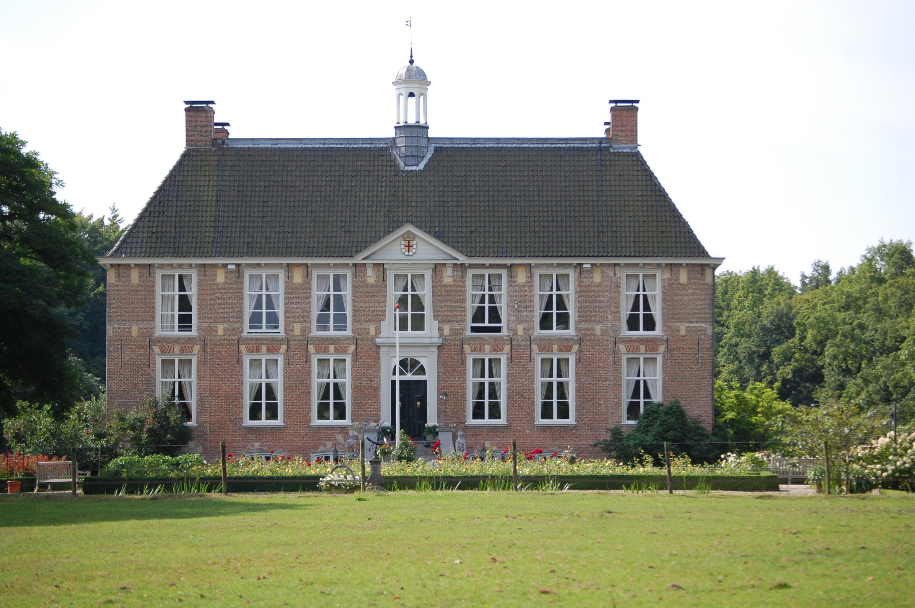 Molecaten house near Hattem, Gelderland, The Netherlands